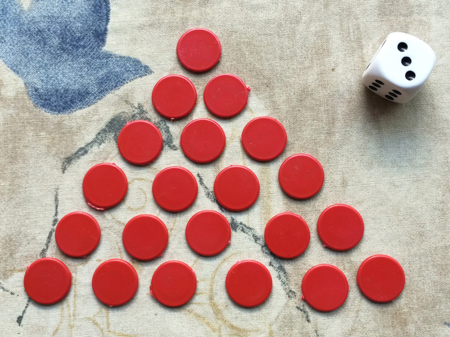 Dice game "Kuhschwanz" ("cows tail")